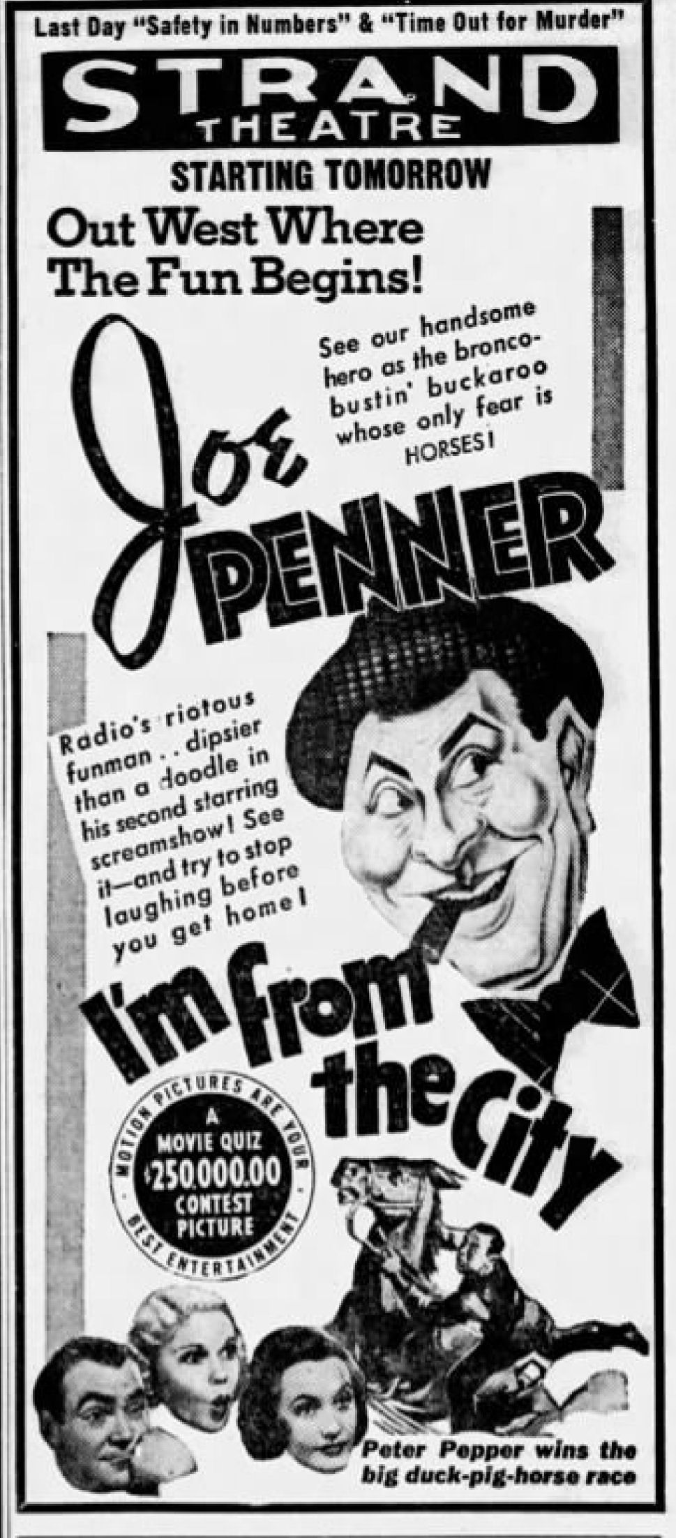 Strand Theater advertisement for the American film I'm From the City (1938) with Joe Penner, Lorraine Krueger, and Kay Sutton - 26 Sep. 1938 Morning Call, Allentown PA